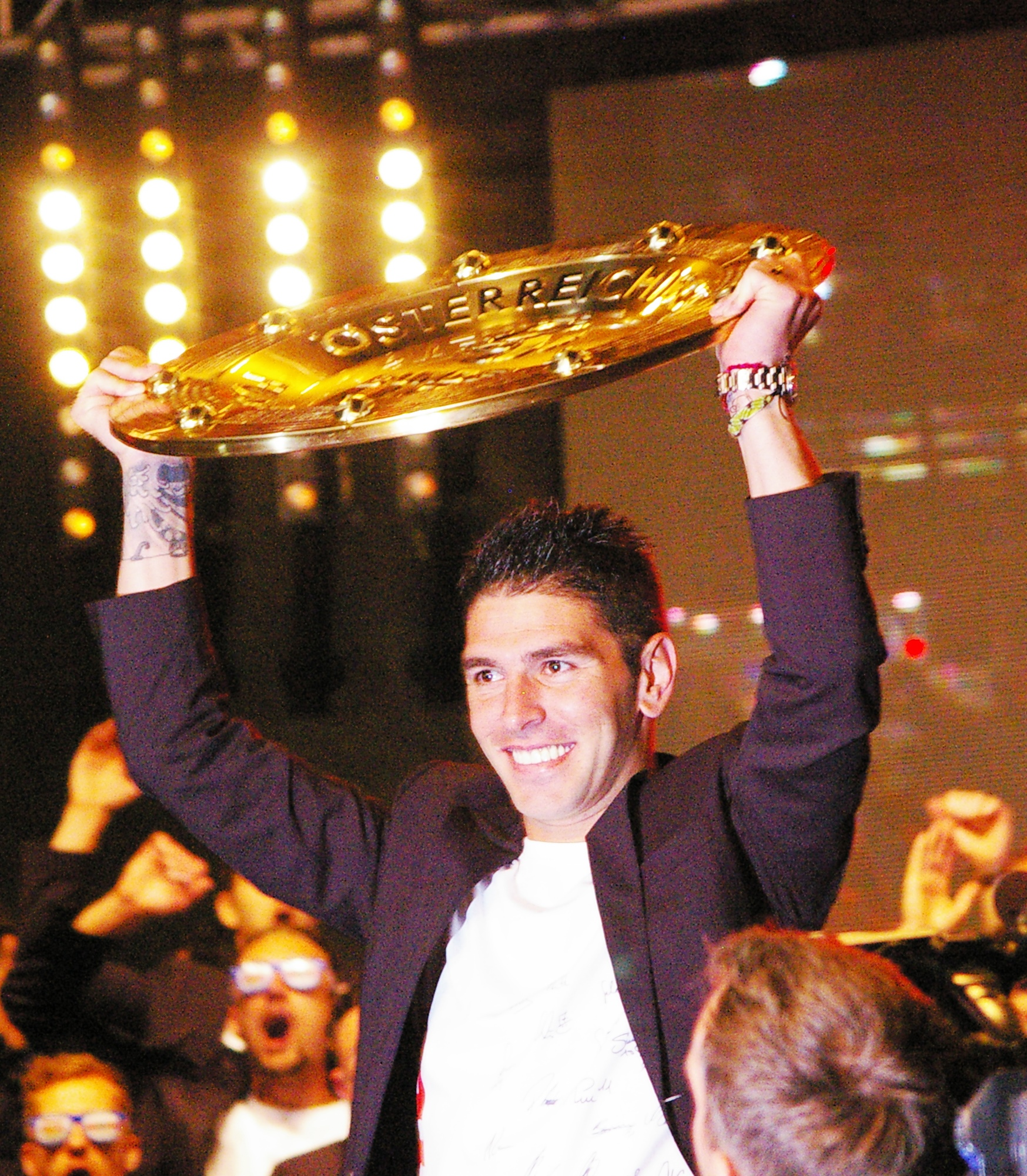 Celebration of the 6th title 2015